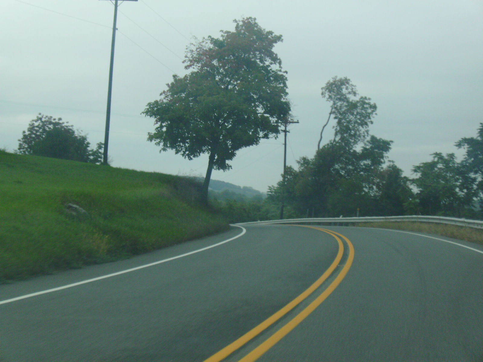 The northbound New Jersey Route 284 climbing over a hill in Wantage Township.